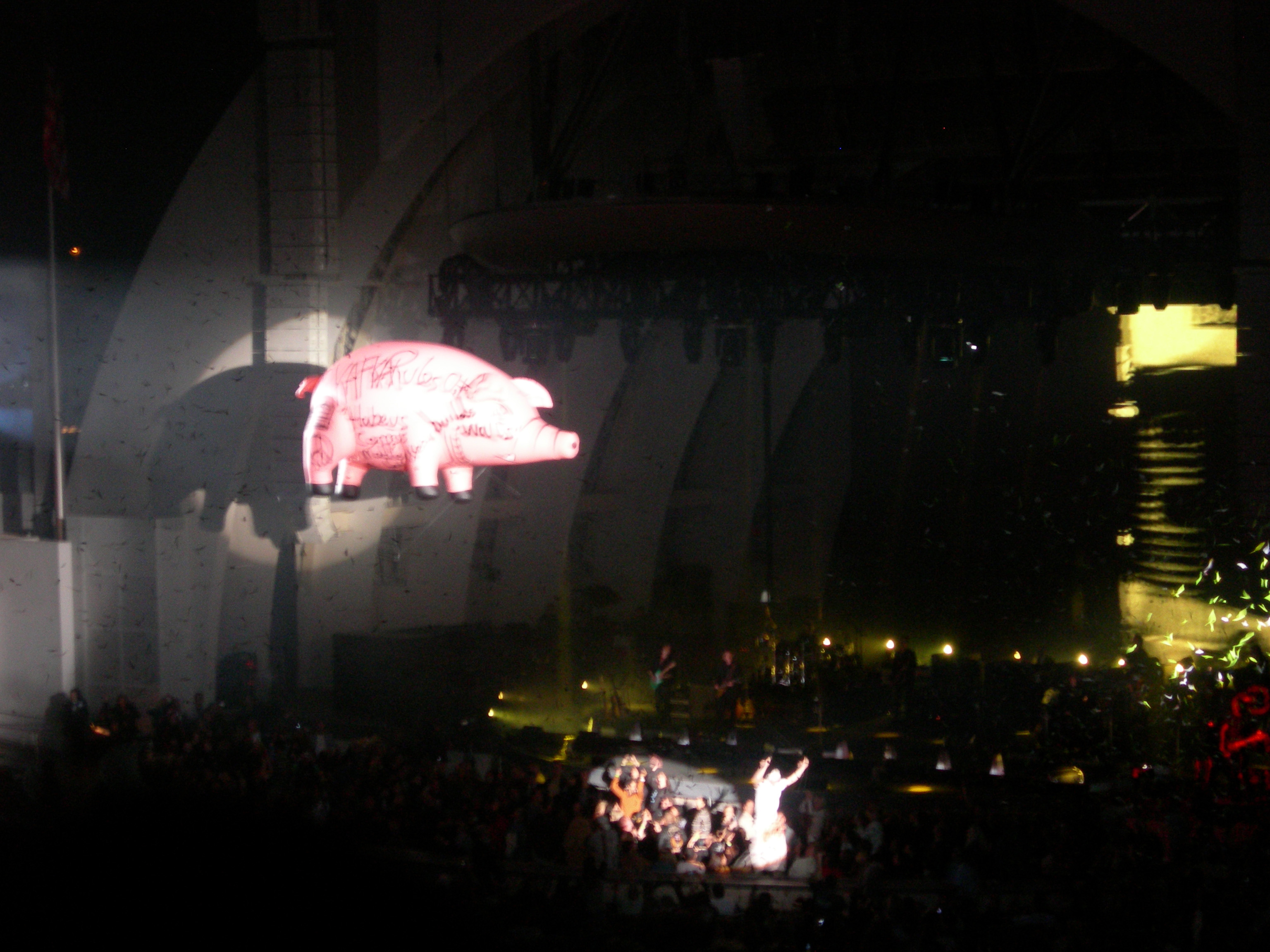 Roger Waters, "Sheep", with giant inflatable pig floating over crowd and into the sky — at the Hollywood Bowl, Los Angeles.